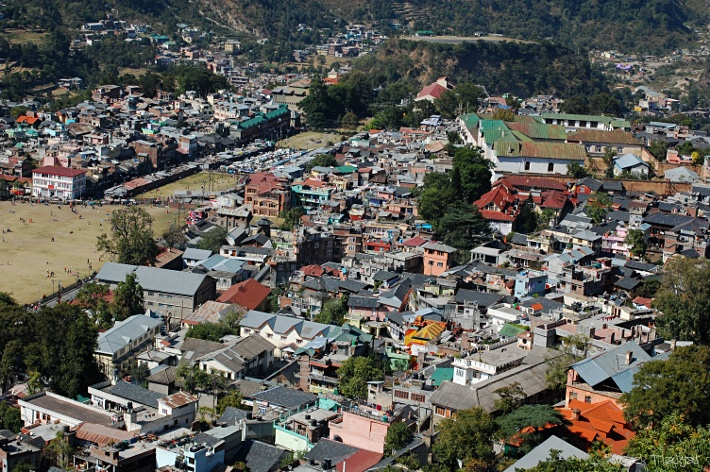 Chamba, Himachal Pradesh